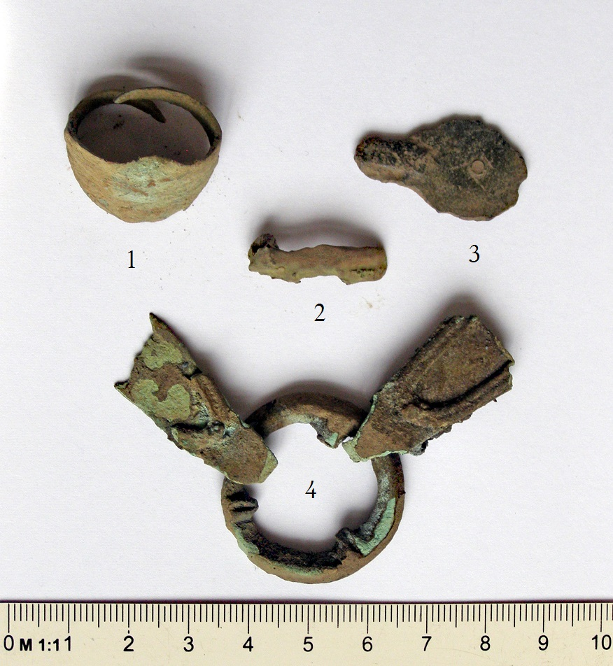 Kartena hillfort, Kretinga district, LithuaniaLietuvių: Kartenos piliakalnis, Kretingos rajonas, Lietuva